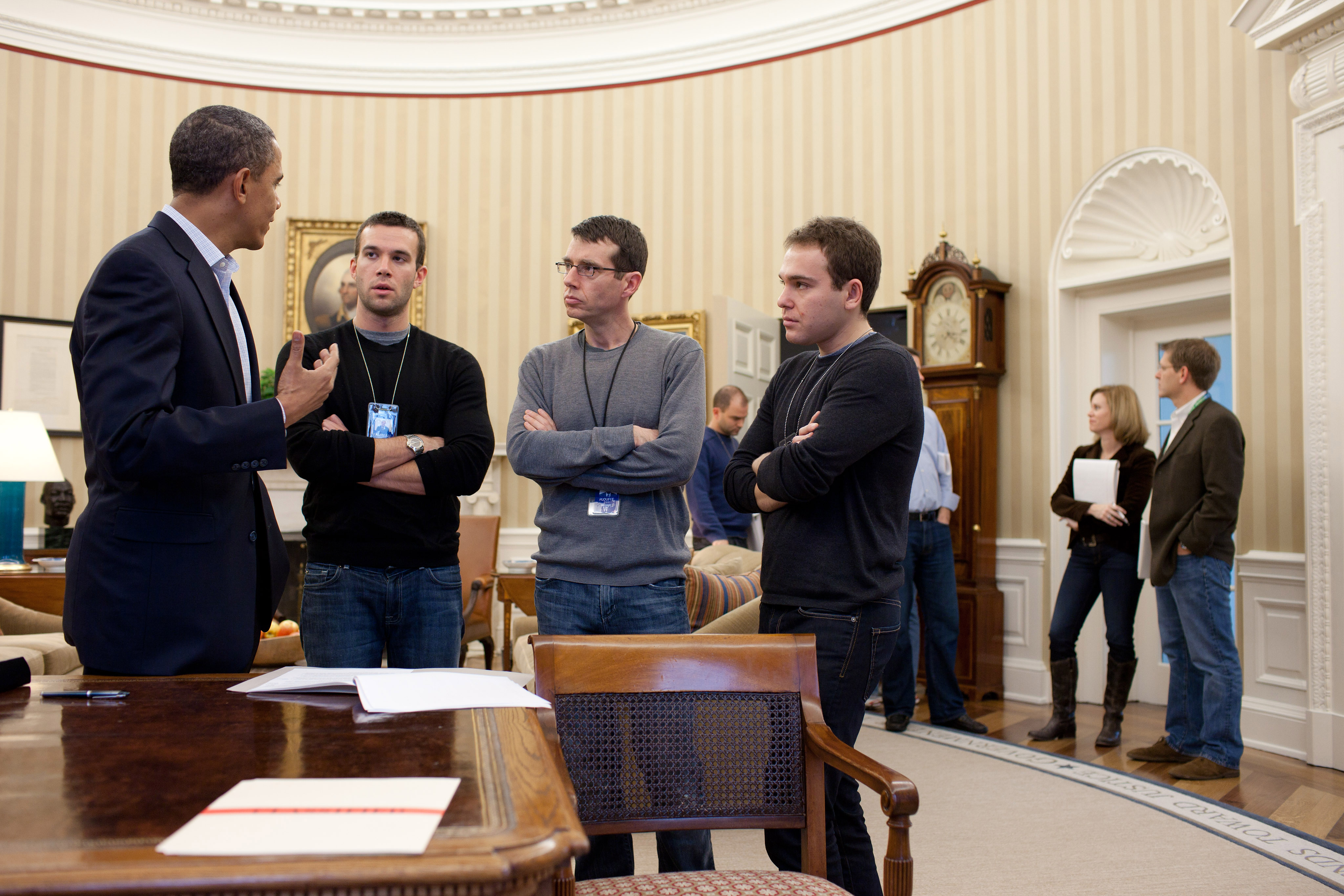 President Barack Obama talks with, from left, Director of Speechwriting Jon Favreau, Senior Advisor David Plouffe and Speechwriting Associate Director Jonathan Lovett in the Oval Office, Sunday, Feb. 6, 2011. (Official White House Photo by Pete Souza)